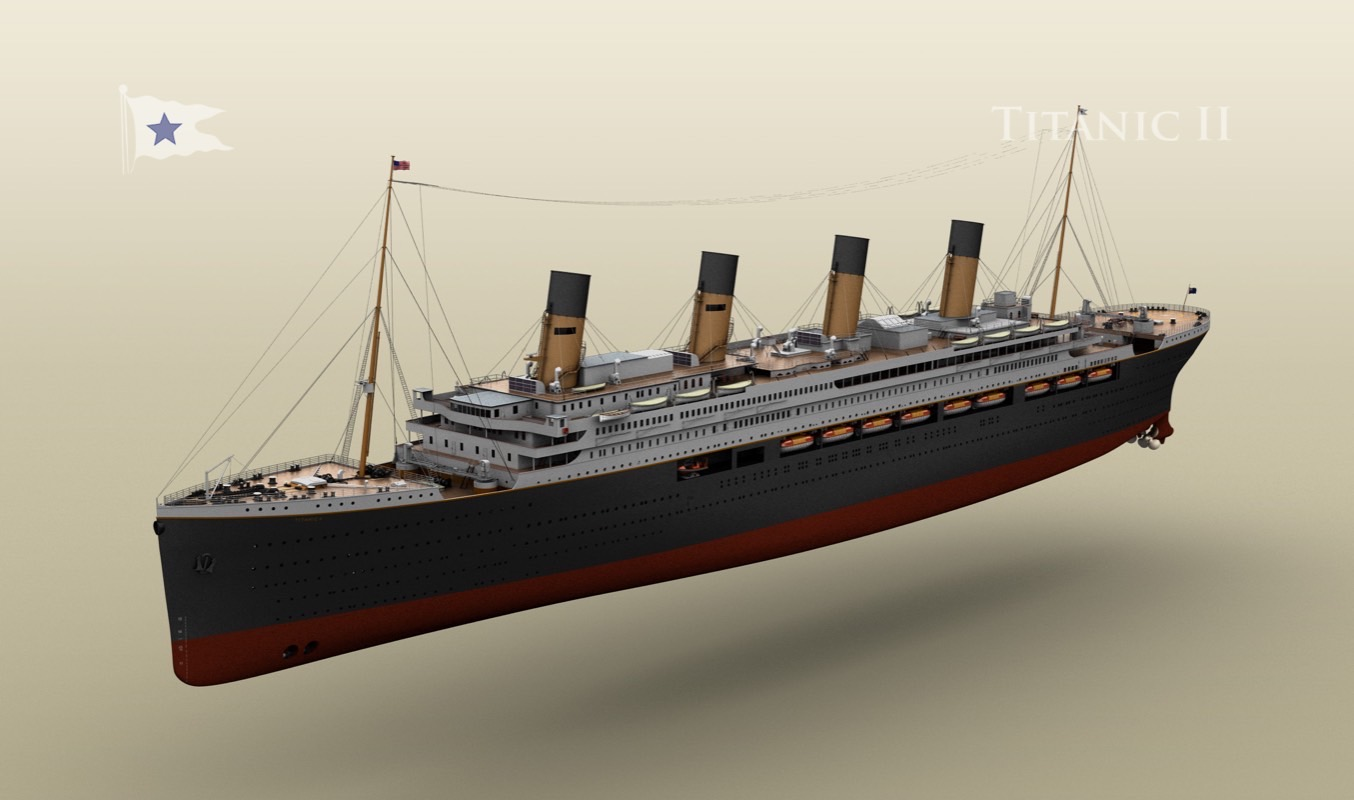 For more information or to register interest in the maiden voyage, visit These images have been supplied to on the understanding they are copyright released and/or royalty free.